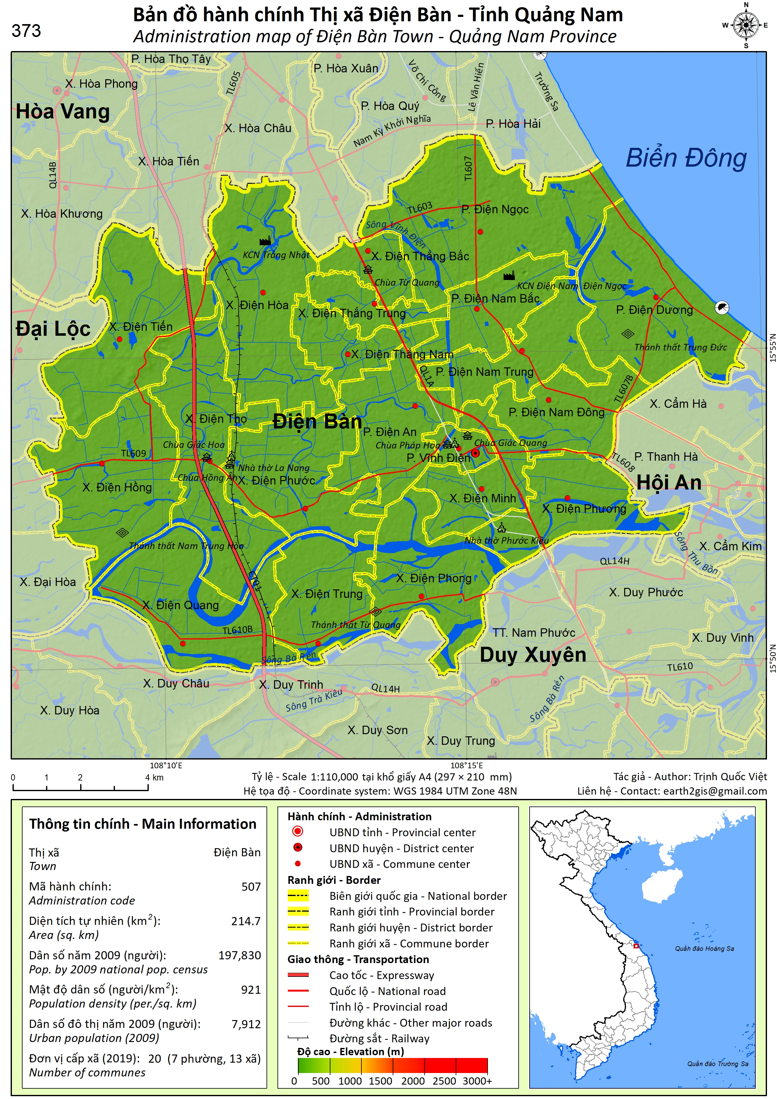 Administration map of Dien Ban Town, Quang Nam Province